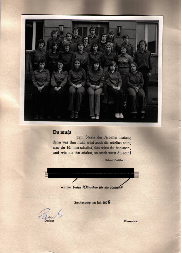 Abiturzeugnis DDR=Deutsche Demokratische Republik, i.e. School Leaving Certificate GDR=German Democratic Republic 1976 page 2